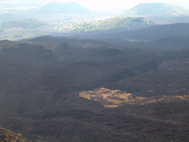 Mont Etna: Lavaflows on the southern side viewed from Rifugio Sapienza